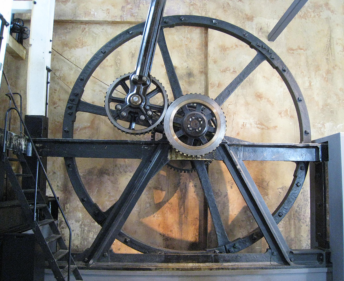 The flywheel is around 4 metres in diameter, fabricated from (I am guessing) cast iron pieces rivetted together. The scale can be seen in comparison with the stairs on the left. This particular engine was installed in Whitbread's brewery in 1785, and clocked up 102 years' work. More about it here